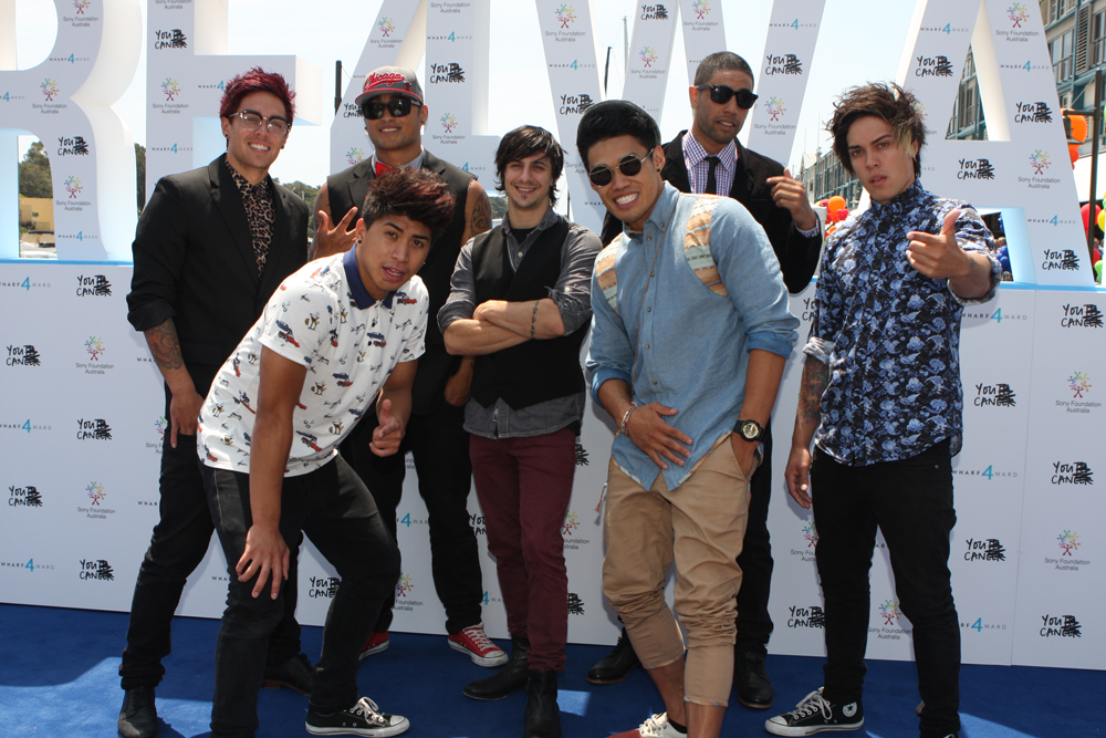 Justice Crew at Sony Foundation's Youth Cancer campaign in Sydney.